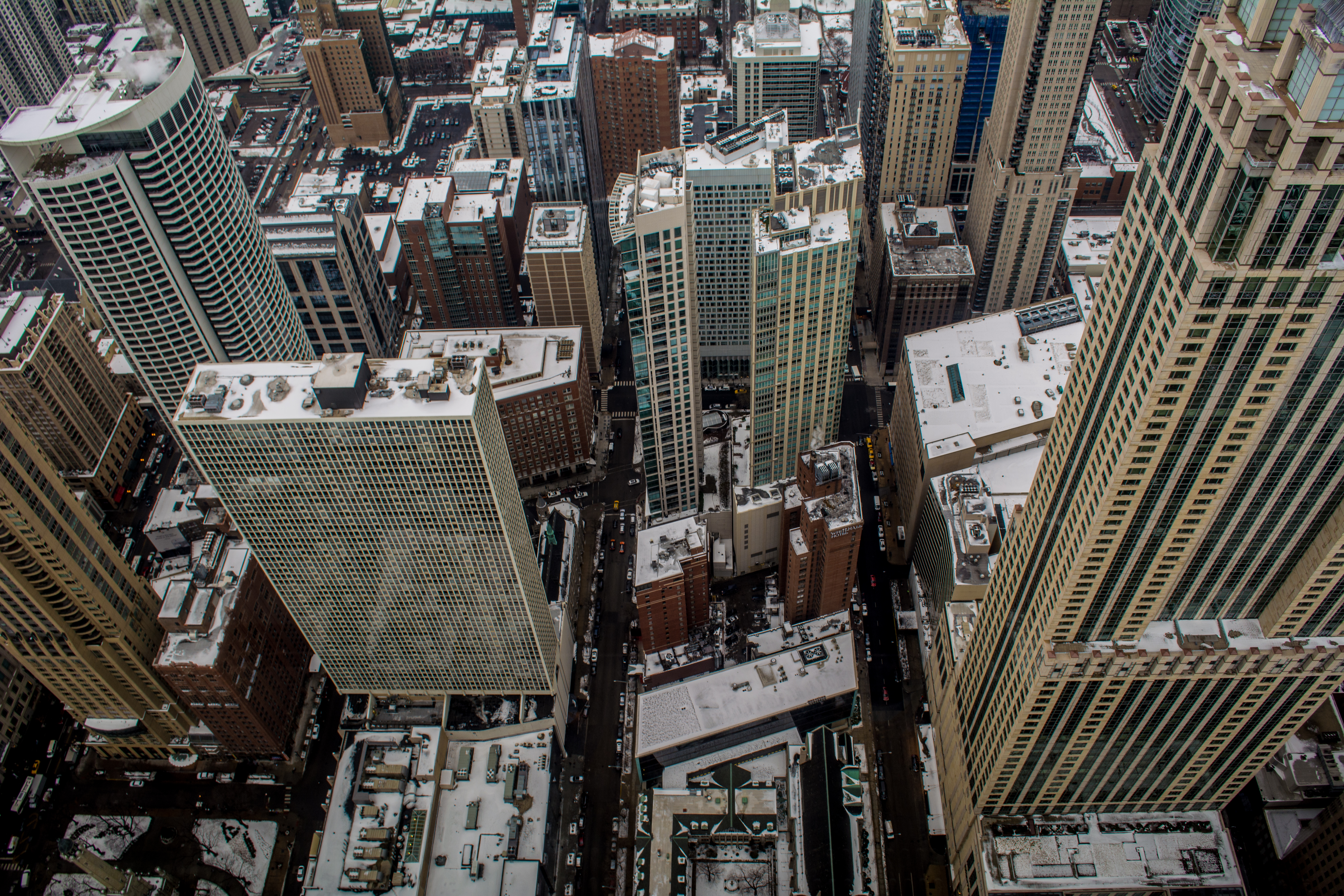 Chicago Dec 2016